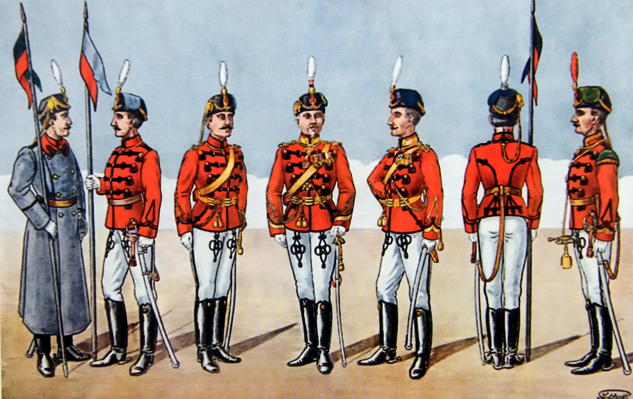 The military uniforms of the cavalry officers from the Romanian Armed Forces during the WW I.